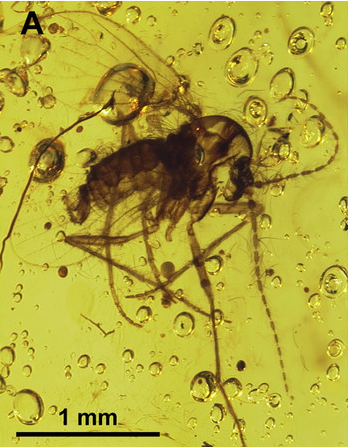 Sycoracinae: (A) Palaeoparasycorax globosus ♂, Holotype specimen.